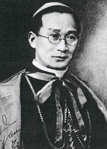 Bishop Ianuarius Kyunosuke Hayasaka